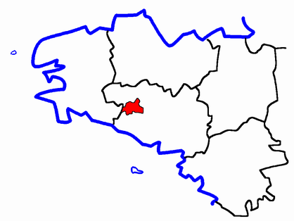 Description: Map for localisazion of cantons of Bretagne region in France Source: made by Hervé Tigier in april 2005 from another large map (published in 1990)